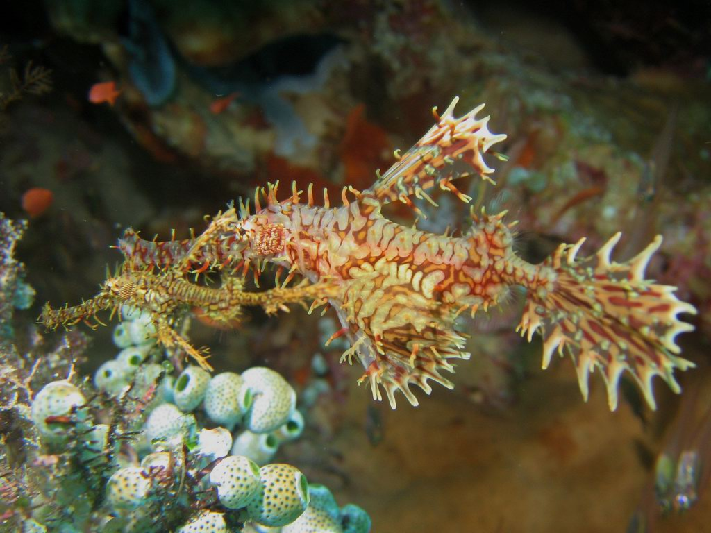 Ornate ghost pipefish (Solenostomus paradoxus) couple. The bigger one is the female, and she seems to be pregnant - see the big swelling